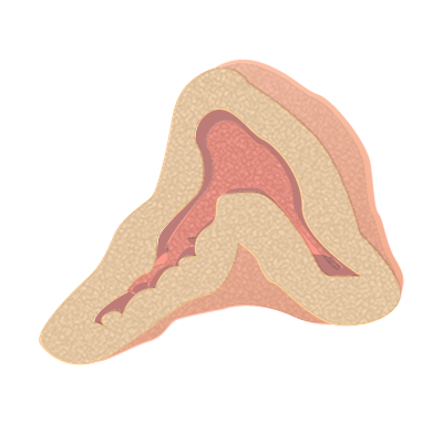 adrenal medulla